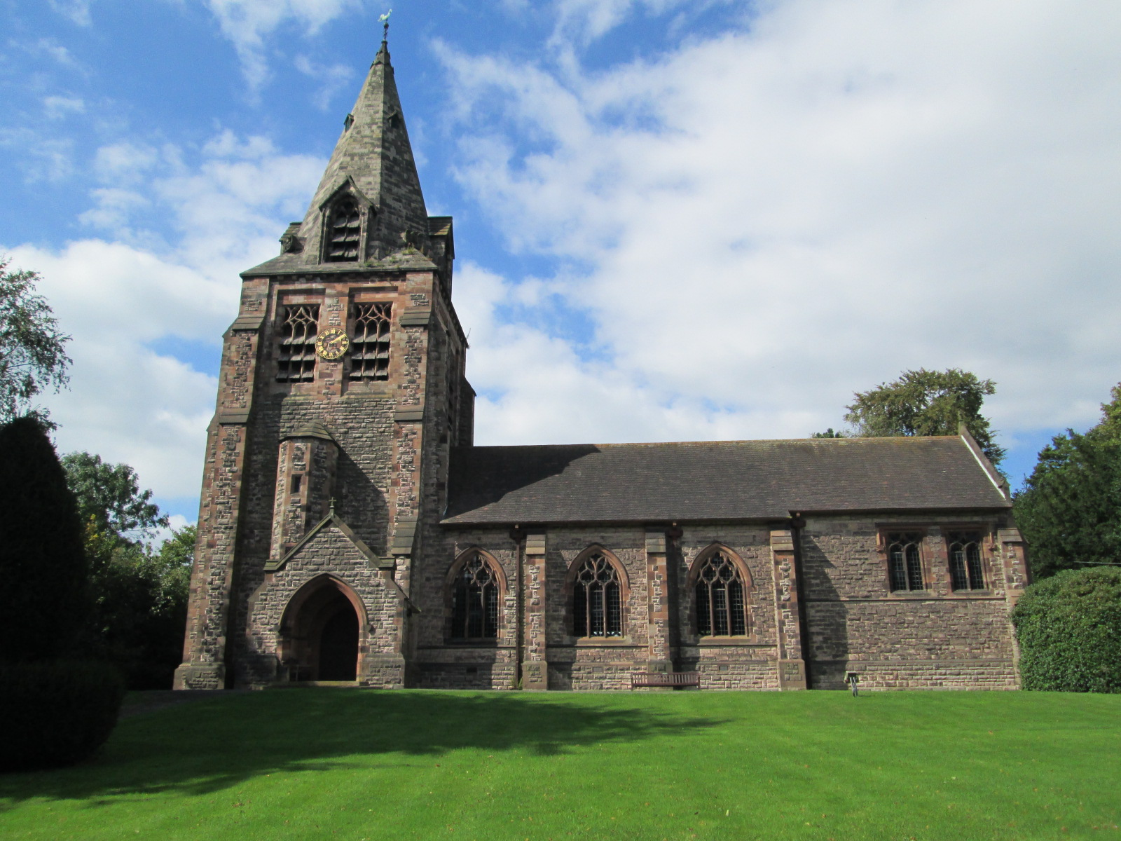 St Chad's parish church, Longsdon, Staffordshire, seen from the southeast